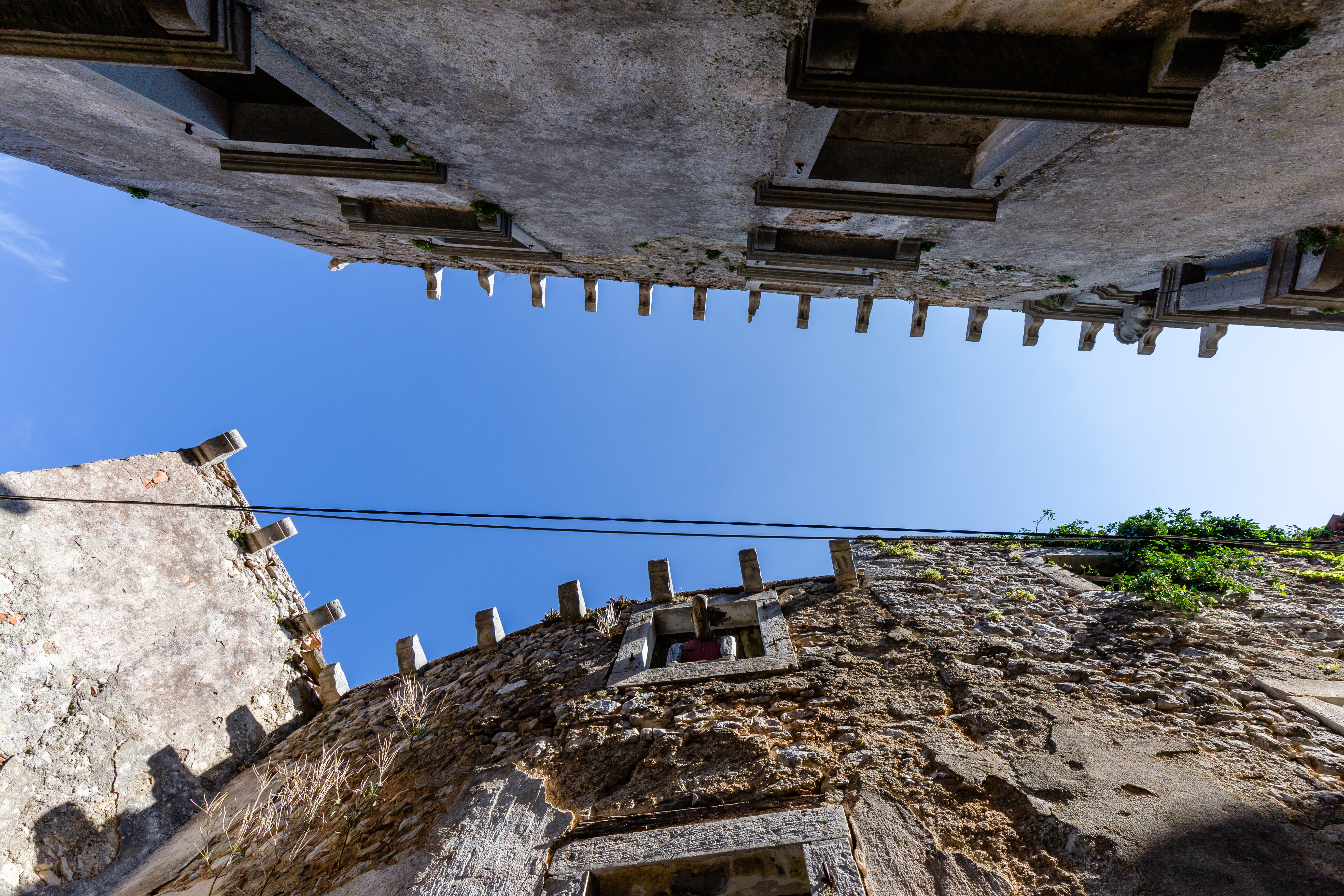 View to the sky from a tiny street, Plomin, Istria County, Croatia